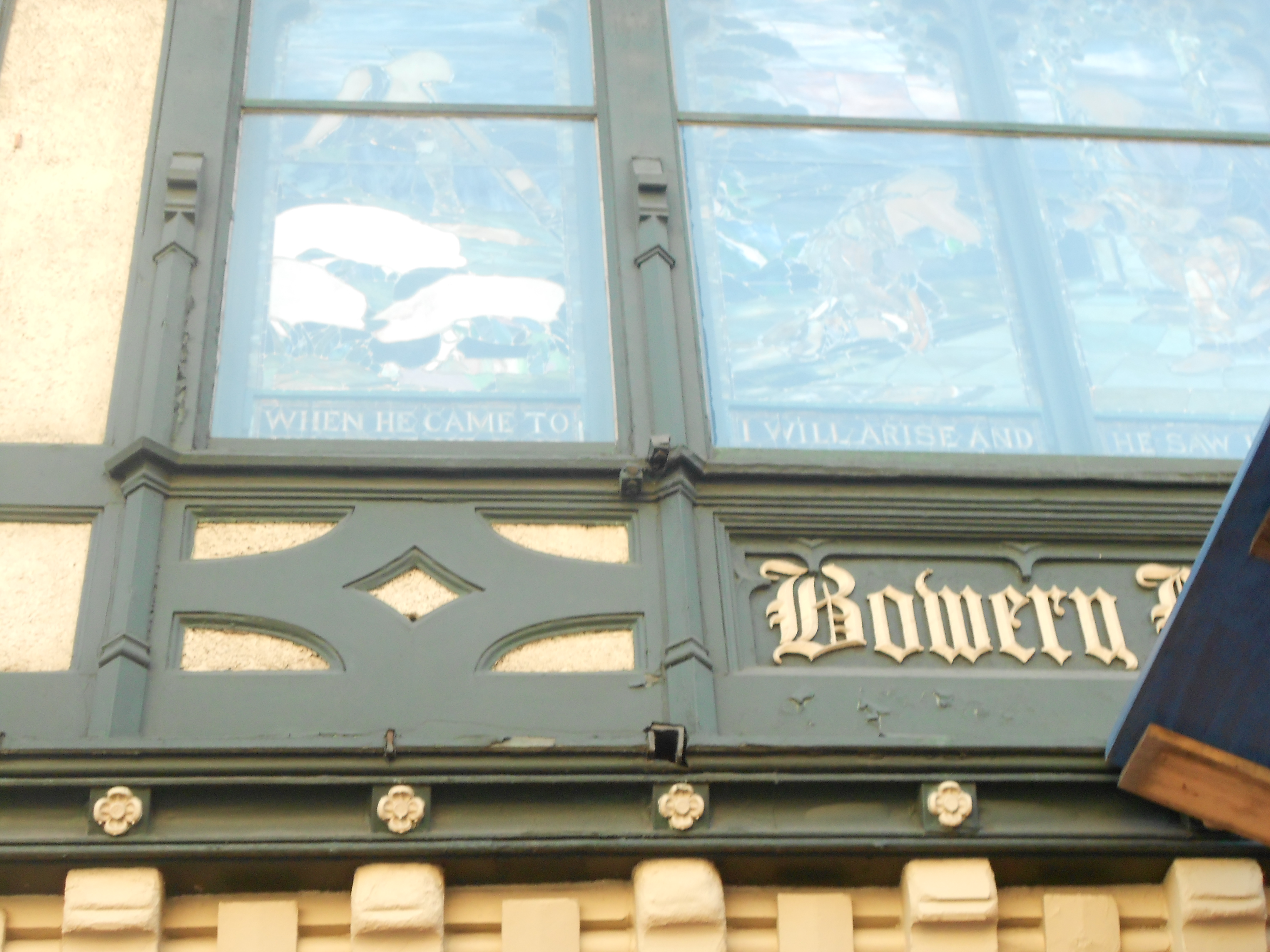 picture of the Bowery Mission on Bowery street in New York, april 01,2012